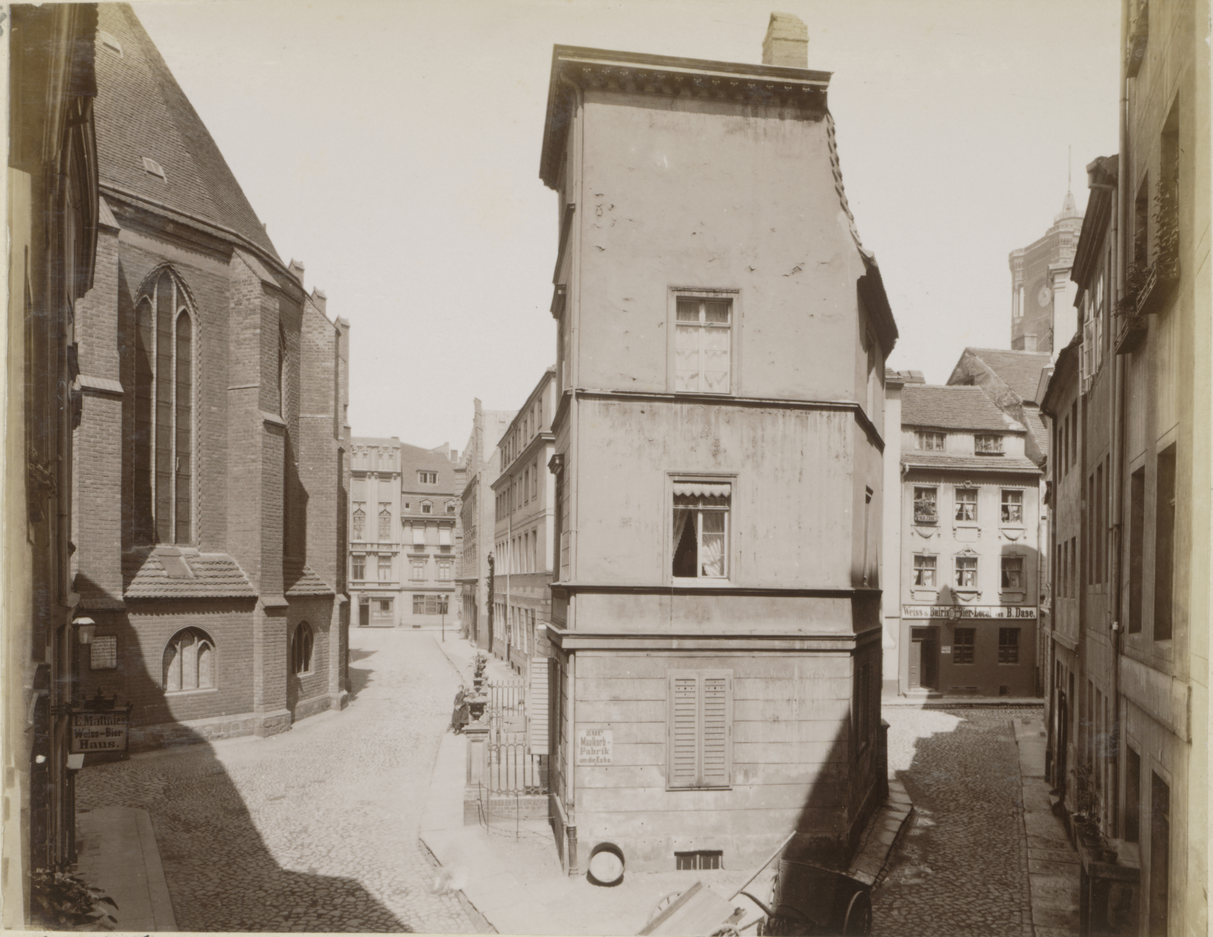 The churchyard of St. Nicholas' Church in Old Berlin, the road Eiergasse on the right. The area was mostly destroyed by the allied air raids between 1943 and 1945. Only in 1984 it was restorated as Nikolaiviertel (“St. Nicholas quarter”).